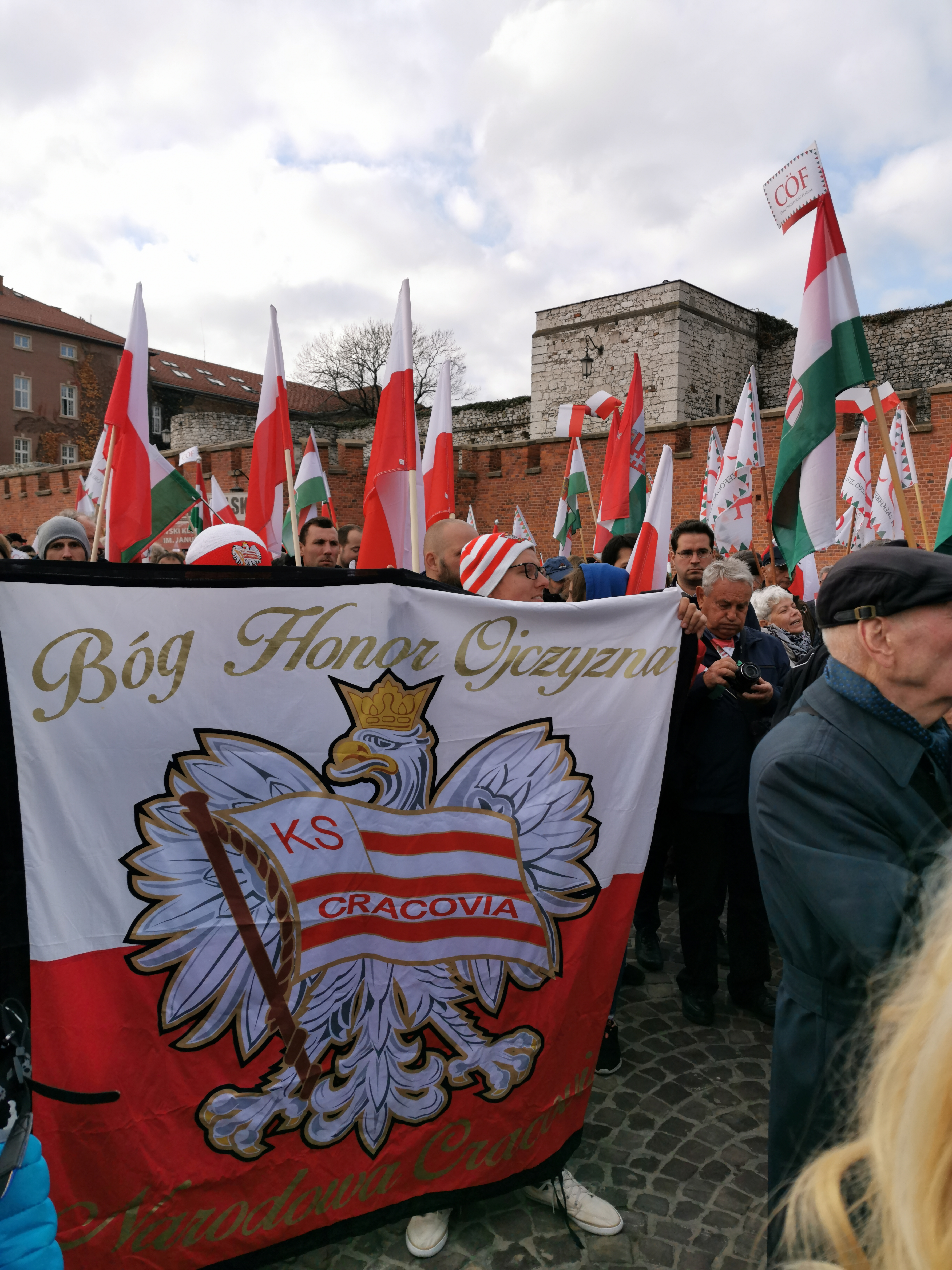 March of Independence. Kraków, Poland. From Wawel to Plac Jana Matejki.